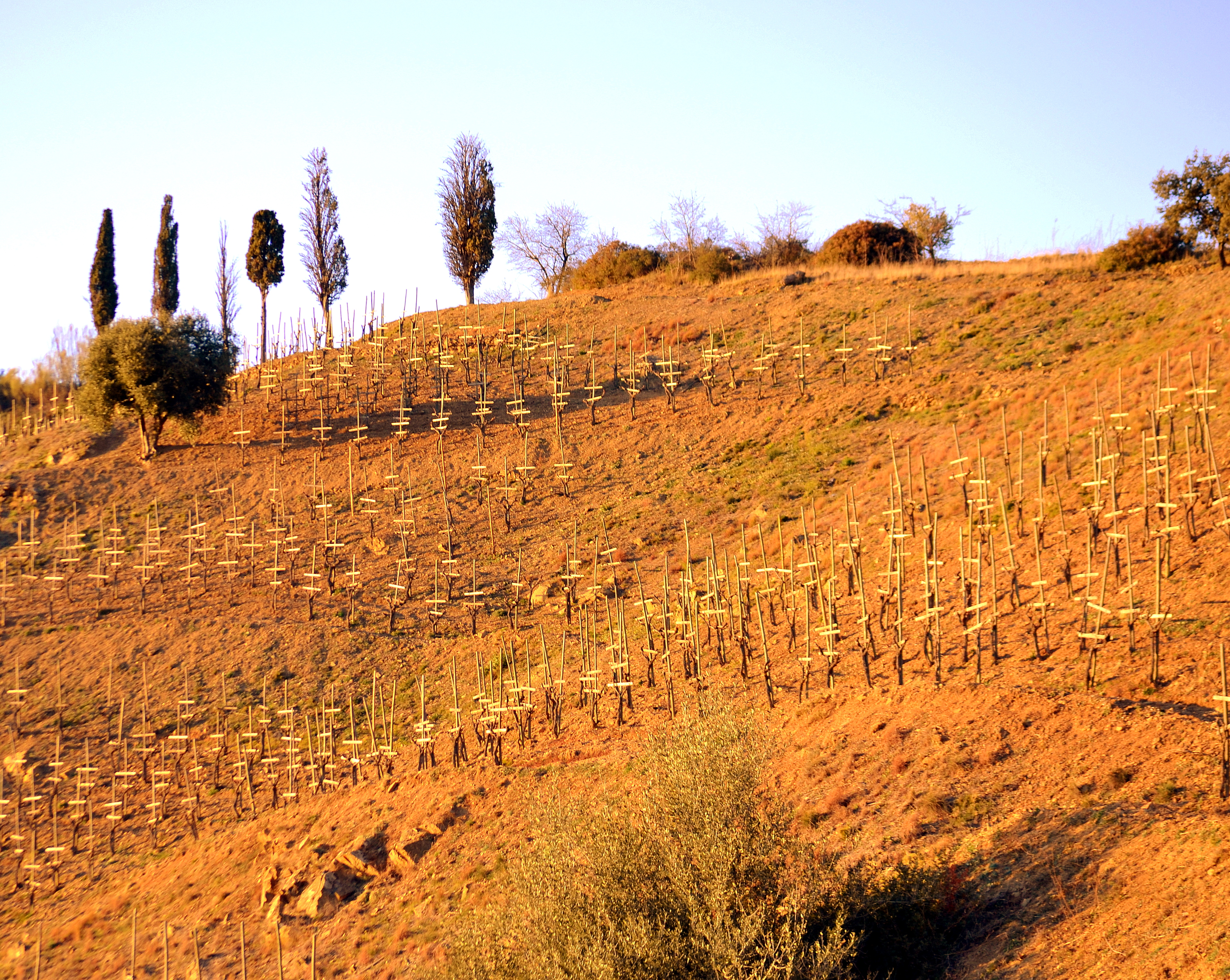 Vineyards in the Spanish wine region of Priorat, Catalonia